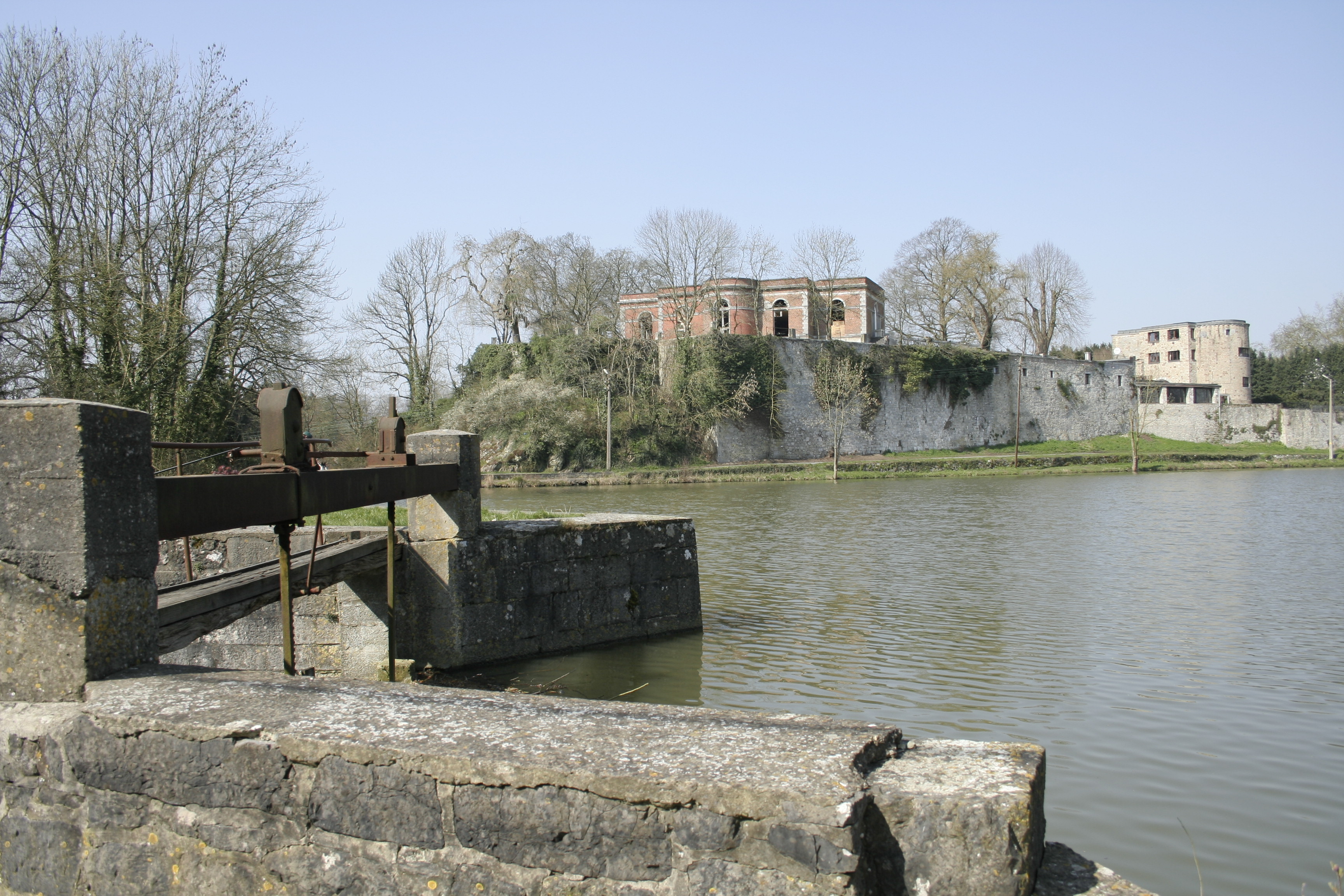 Barbençon (Belgium), the castle ruines viewed from the pond.